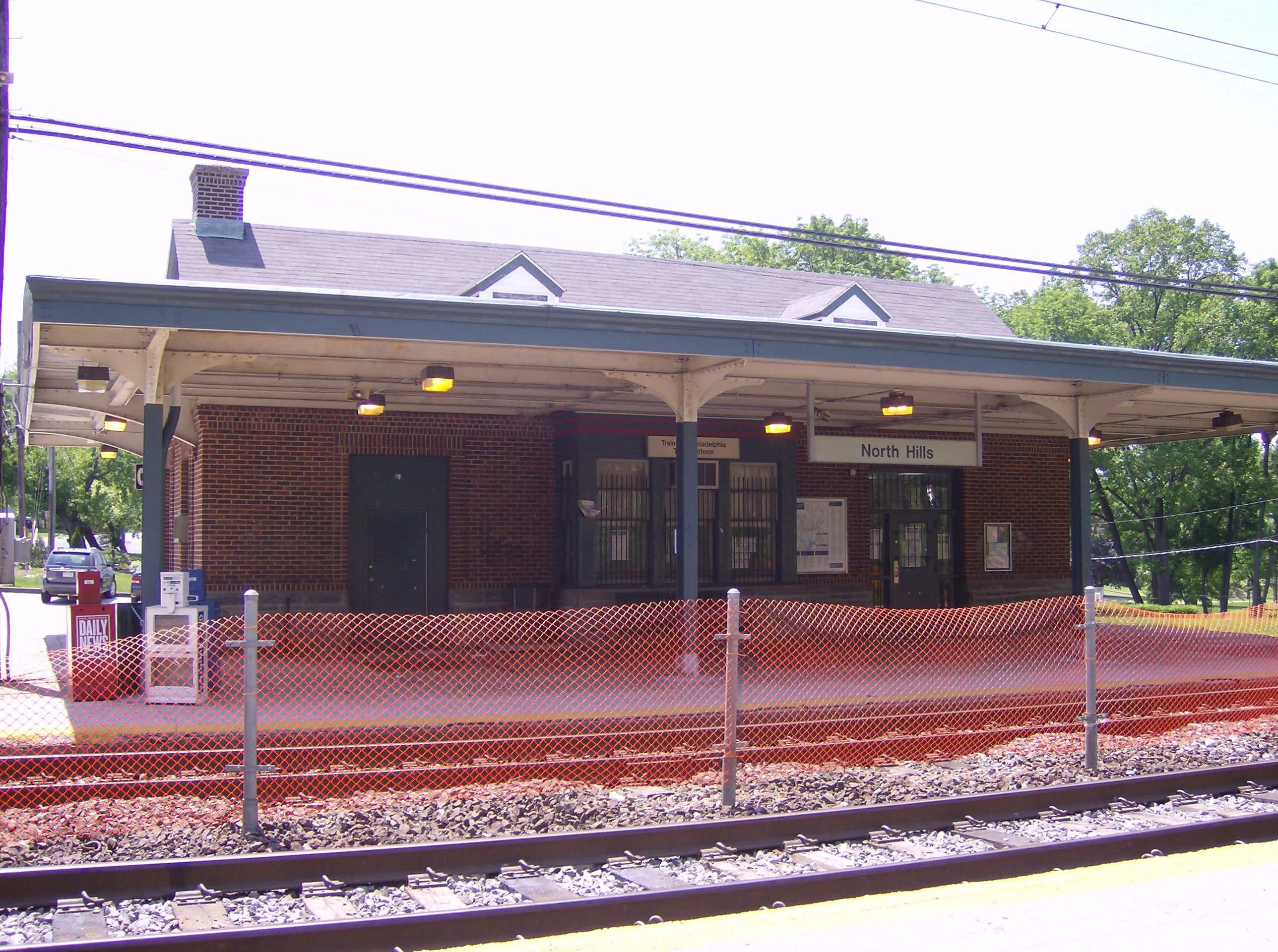 The North Hills SEPTA Regional Railroad station, originally built by the Reading Railroad.